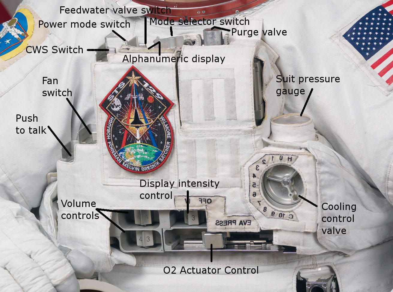 Image from NASA, info from U.S. Spacegear and 1. Made with GIMP. Font: Sans Font size: 32 Strokepath: 6 px Text displayed: Mode selector switch, Purge valve, Suit pressure gauge, Cooling control valve, O2 Actuator Control, Display intensity control, Volume controls, Push to talk. Fan switch, CWS (Caution and Warning Switch) Switch, Power mode switch, Feedwater valve switch.